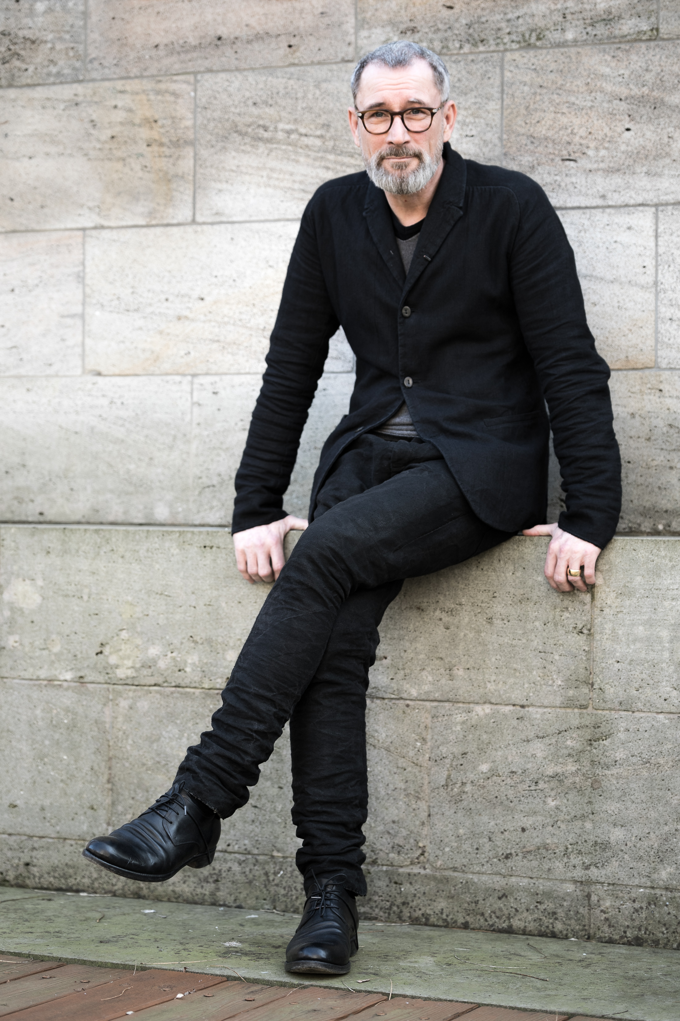 Heikko Deutschmann at the reception of the state government of Hesse, Berlinale 2018